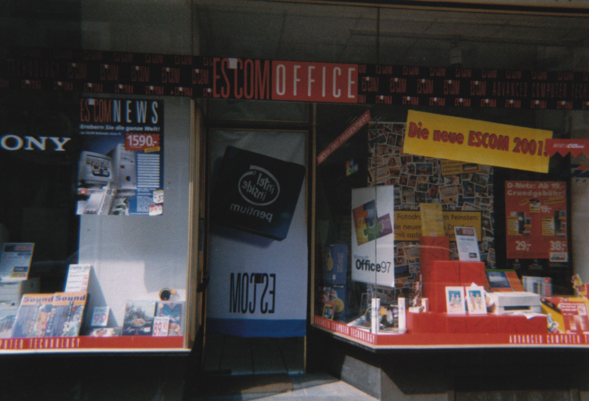 Escom store in Germany